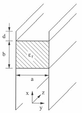 NonRadiative dielectric guide